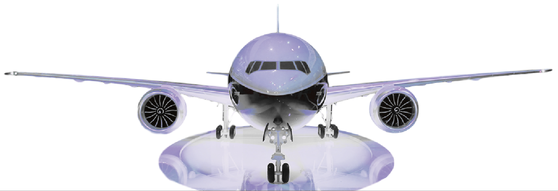 Boeing 777X model, front, background clipped